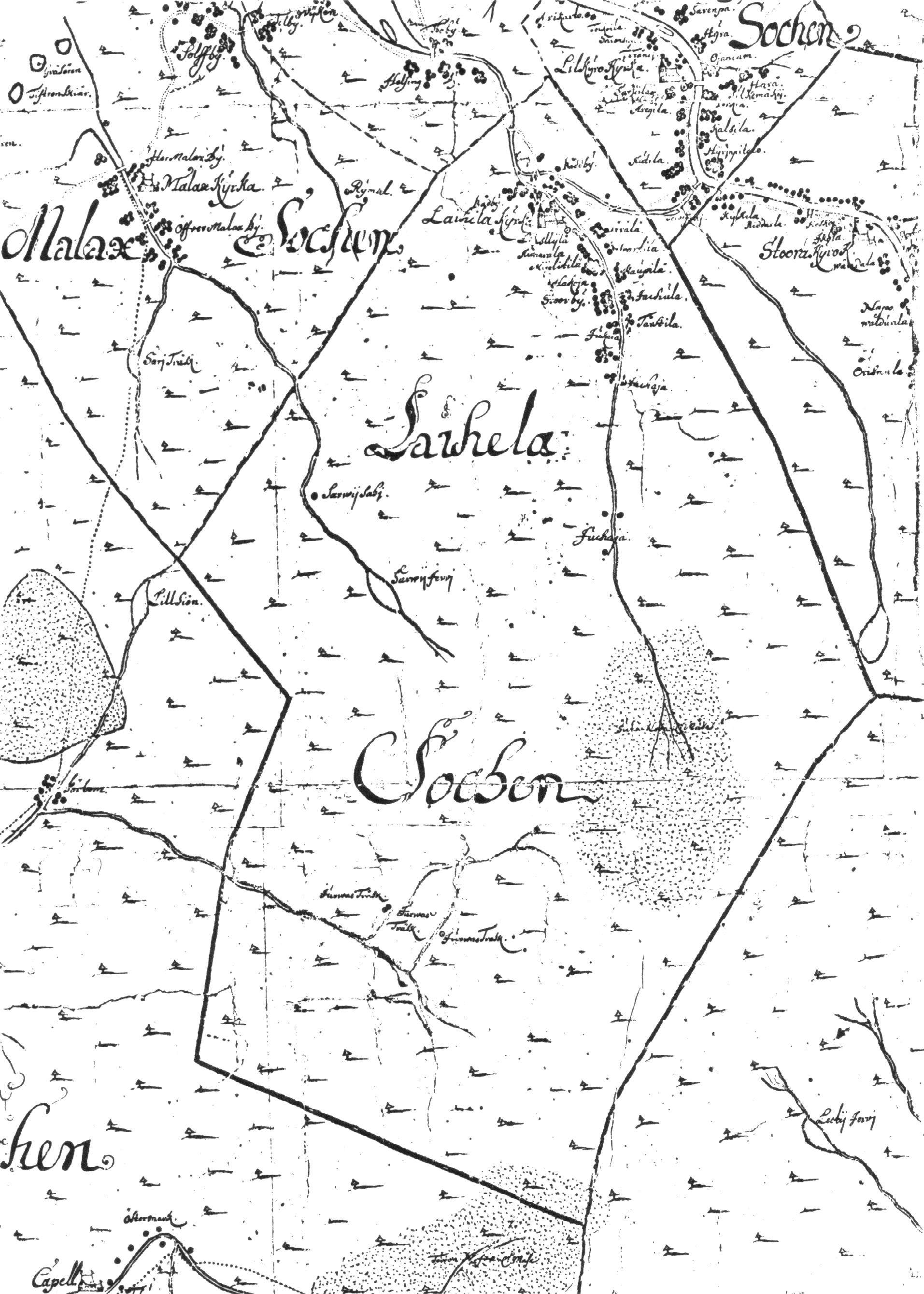 A map of Laihia from year 1680. Each round dot is a house.